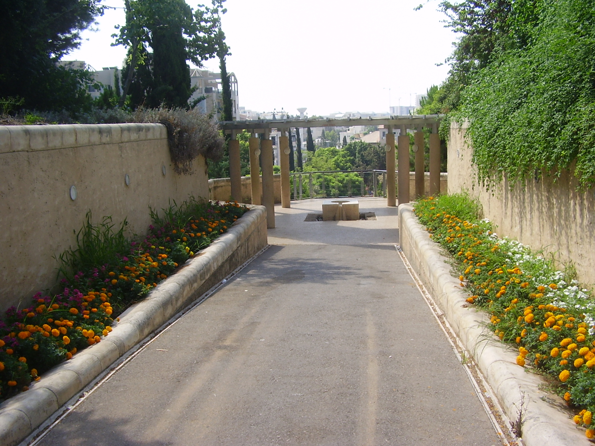 akiva gur lookout in har shalom, bnei brak, israel מצפור עקיבא גור בשכונת הר שלום בבני ברק